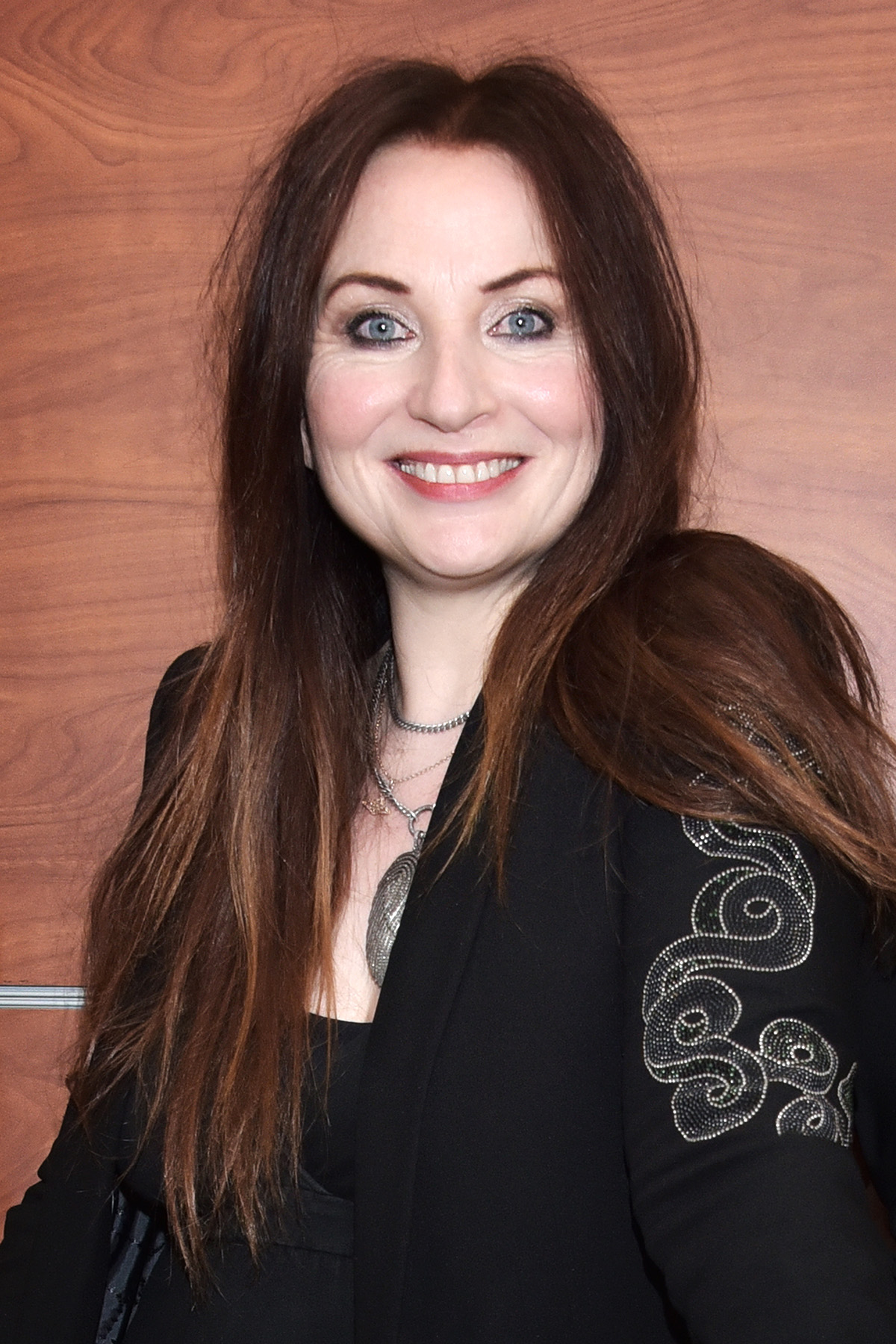 Judith Owen, Mission Viejo, California on April 15, 2017 - Photo by Glenn Francis of